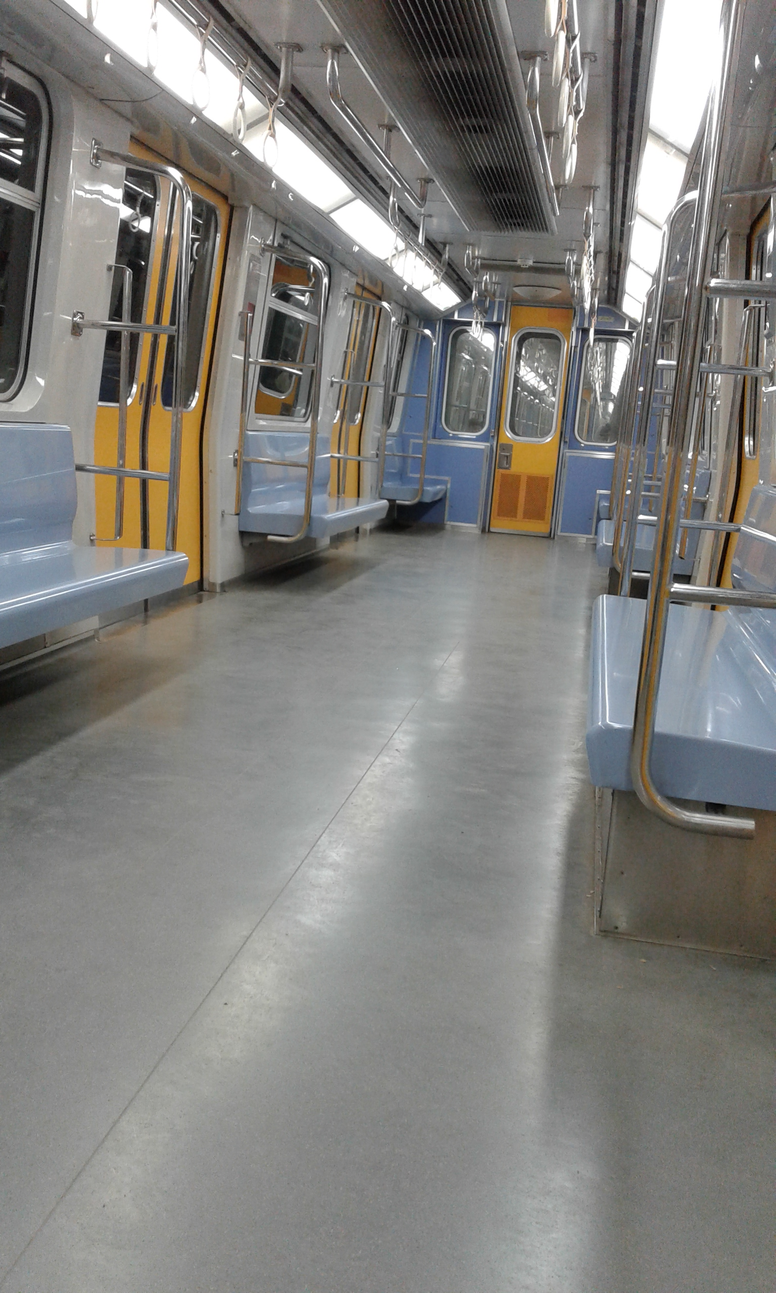 Inside a carriage in an underground (metro) train in Cairo, Egypt.